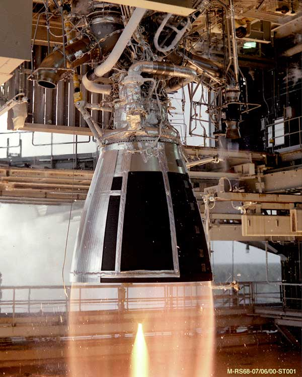 An RS-68 engine undergoing hot-fire testing at NASA's Stennis Space Center during its developmental phase. RS-68 being tested at NASA's Stennis Space Center. The nearly transparent exhaust is due to this engine's exhaust being mostly superheated steam (water vapor from its propellants, hydrogen and oxygen)